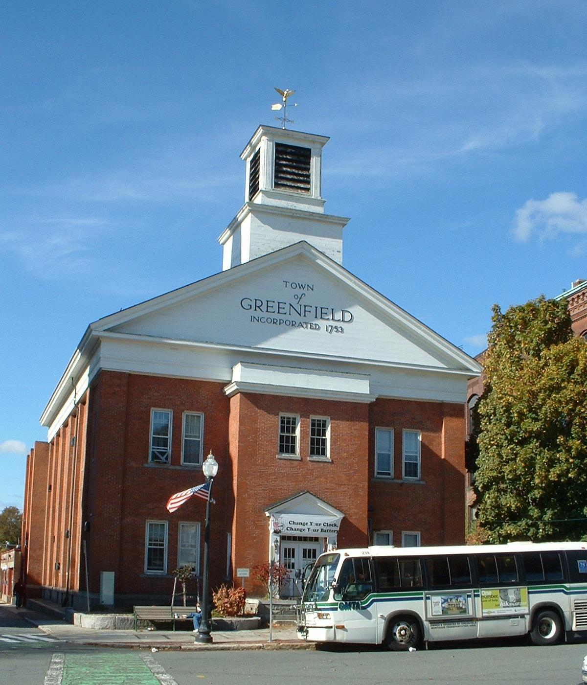 Greenfield City Hall, Massachusetts. Most pictures of the building still show it as "TOWN" instead of "CITY."